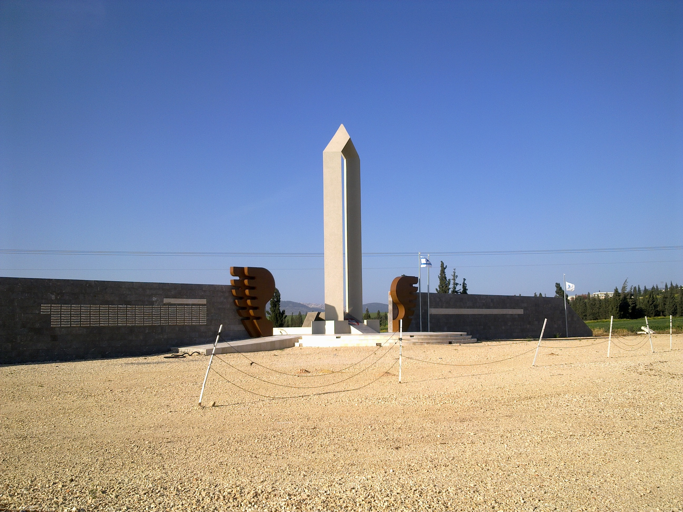 kfir brigade monument in Afula אנדרטת חטיבת כפיר בעפולה